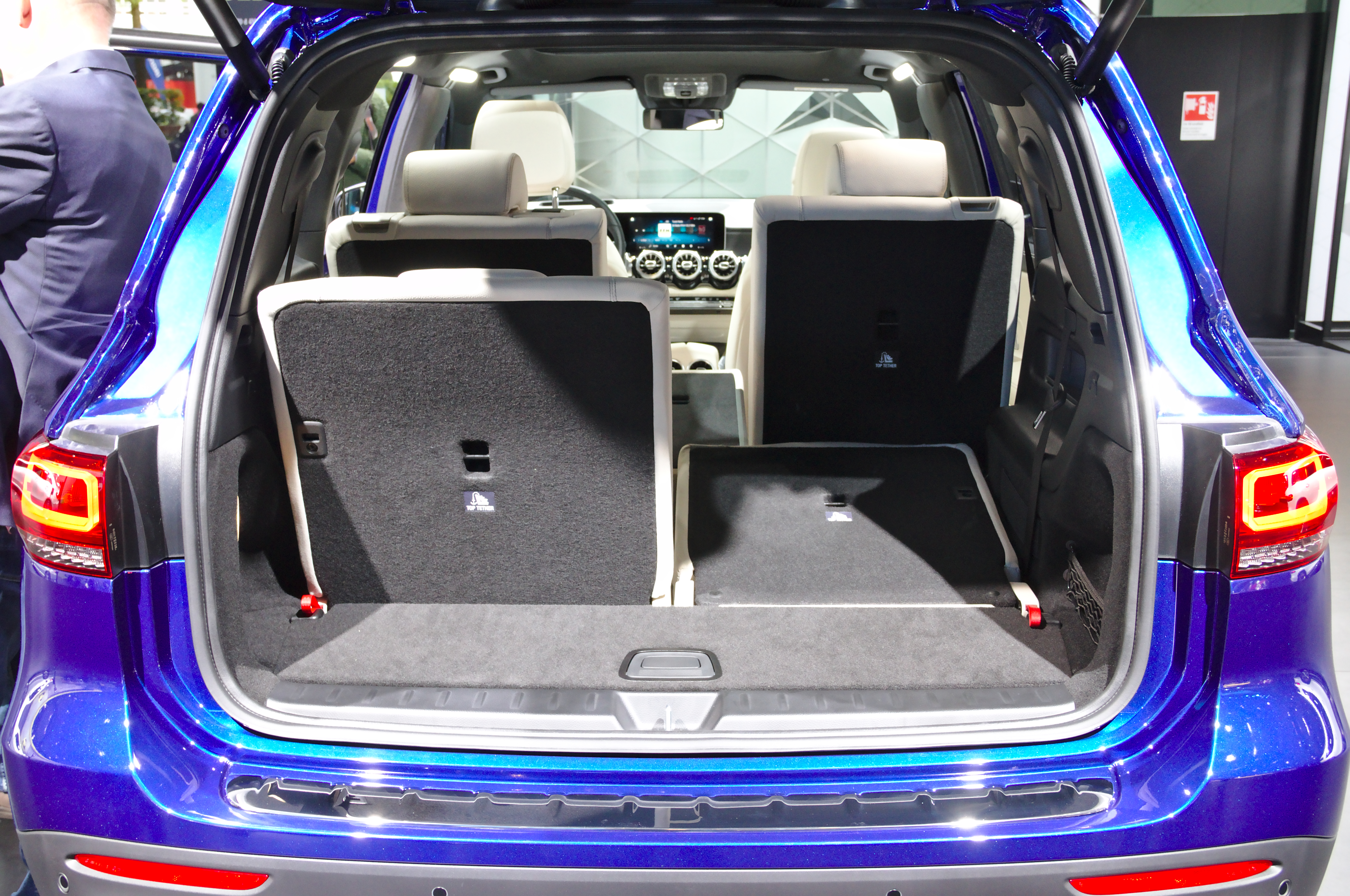 Mercedes-Benz_X247 at IAA 2019